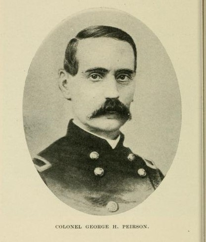 Colonel George H. Peirson, commanding officer of the 5th Regiment Massachusetts Volunteer Militia